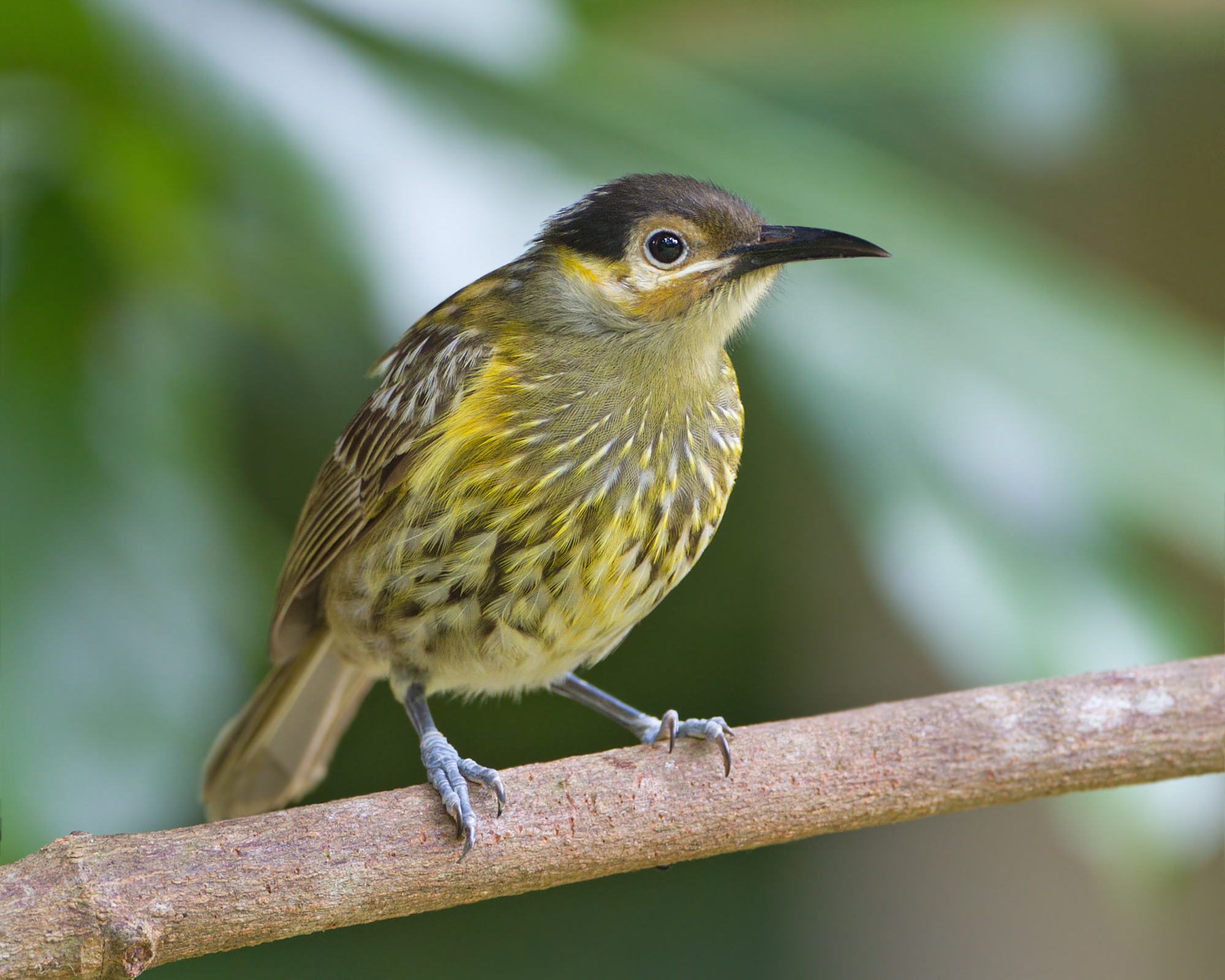 Macleay's Honeyeater (Xanthotis macleayanus), Daintree Village, Queensland, Australia